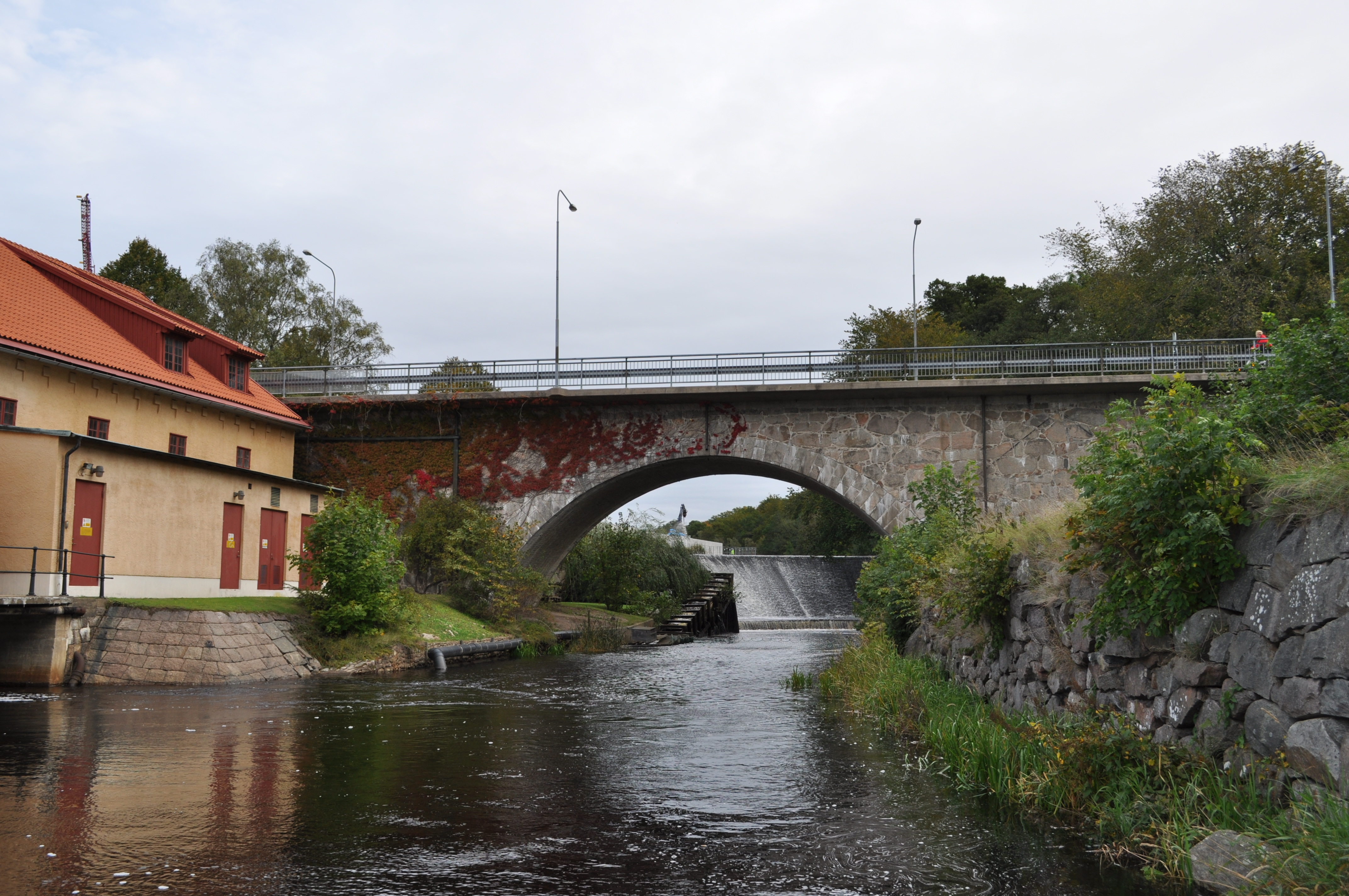 The bridge over river 'Lyckebyån'